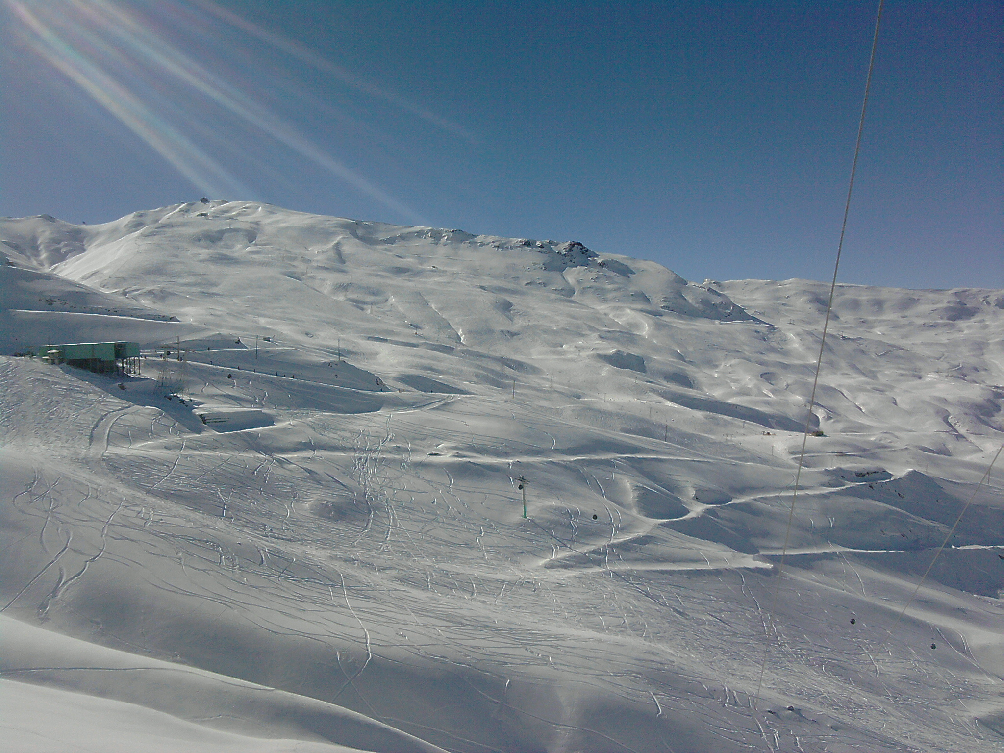 TEHRAN SNOW SKY PLACE